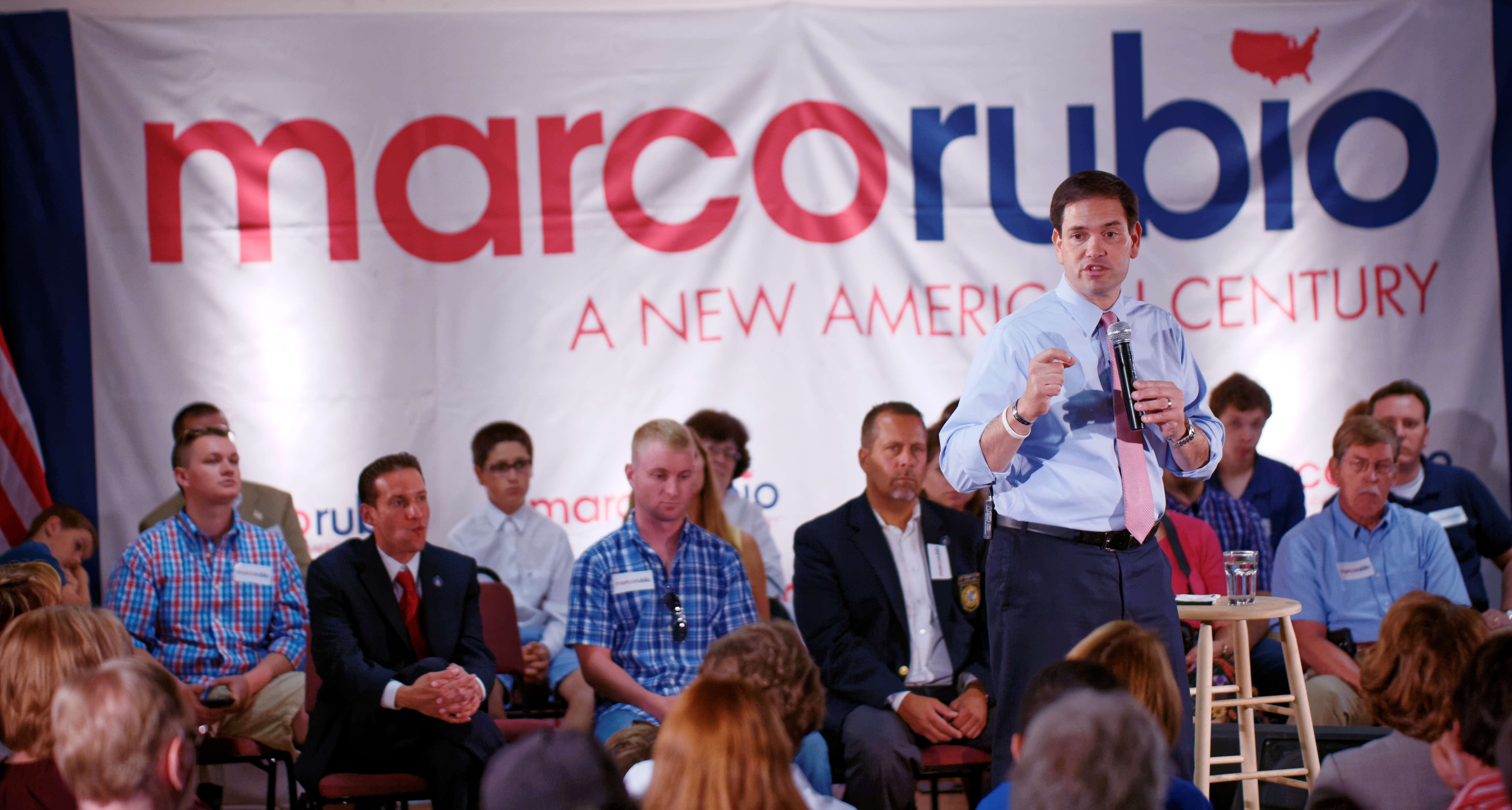 Marco Rubio to Discuss Veterans Issues, Conservative Reforms with New Hampshire Voters on June 25, 2015 Marco Rubio to Discuss Veterans Issues, Conservative Reforms with New Hampshire Voters On Thursday, June 25, Marco Rubio will meet with New Hampshire voters in Exeter, Salem and Manchester. Rubio will begin his trip with a discussion on issues that matter most to veterans and military families at the Concerned Veterans for America's (CVA) first Veterans and Military Town Hall event in Exeter, N.H. "Sen. Rubio has been actively engaged on veterans’ issues, and as such, it is important that veterans and military families are afforded the opportunity to engage on those issues," said CVA CEO Pete Hegseth. "We look forward to Sen. Rubio’s participation in what promises to be a robust policy discussion that furthers the conversation about how America can best serve her veterans, her military, and the free society we served to defend." Following the CVA event, Rubio will host a town hall gathering in Salem, N.H., where he will discuss his vision for creating A New American Century through innovative and conservative ideas. Rubio will end his visit at a policy event hosted by the New Hampshire chapter of Americans for Prosperity (AFP). There, Rubio will discuss the need for conservative reforms that create economic growth and prosperity in America. Trip details: CVA's Veterans and Military Town Hall Meeting: • When: 9:00am ET, June 25, 2015 • Where: Exeter Town Hall, 9 Front Street, Exeter, NH open to the public at 8:00am. Salem Town Hall Gathering: • When: 11:30am ET, June 25, 2015 • Where: Derry-Salem Elks Lodge, 39 Shadow Lake Road, Salem, NH AFP's Road to Reform Discussion: • When: 6:00pm ET, June 25, 2015 • Where: Radisson Hotel, 700 Elm Street, Manchester, NH